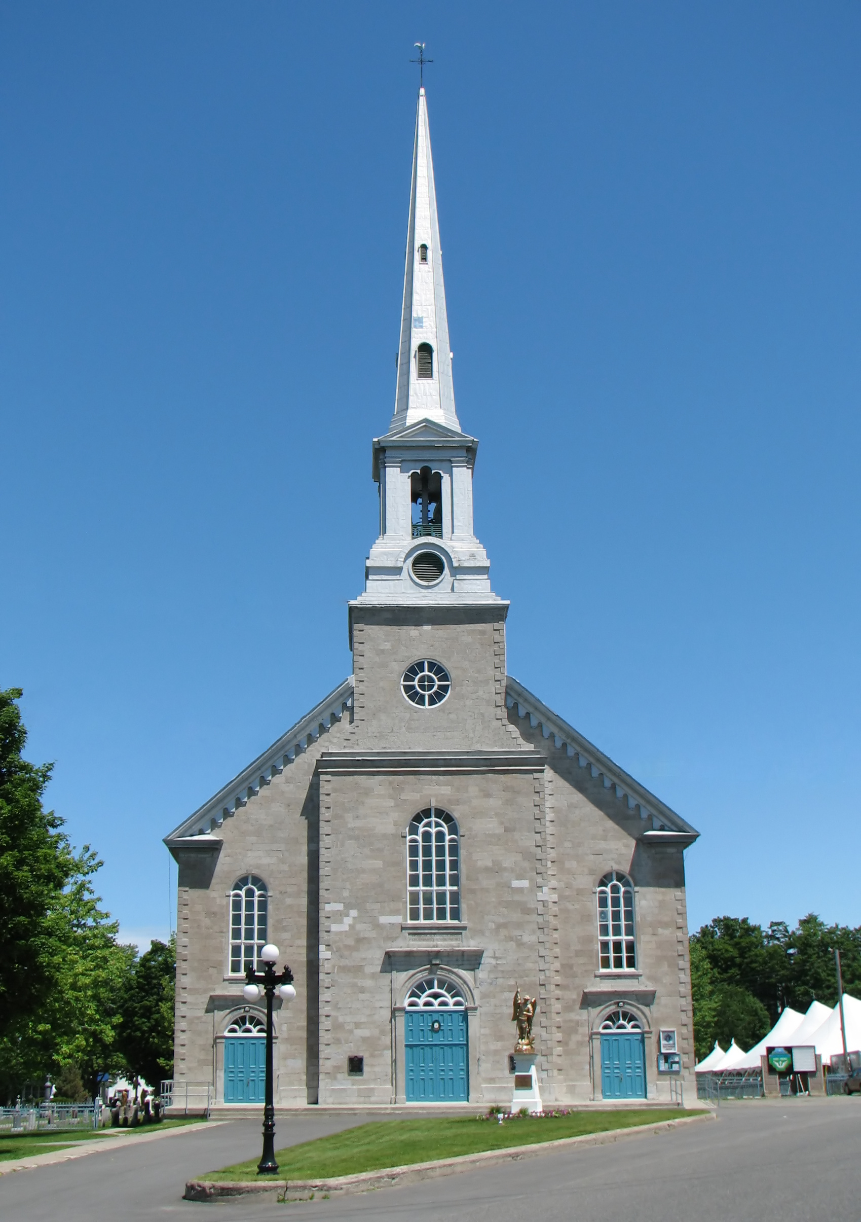 Saint Michel Church (1858), Saint-Michel-de-Bellechasse, province of Quebec, Canada